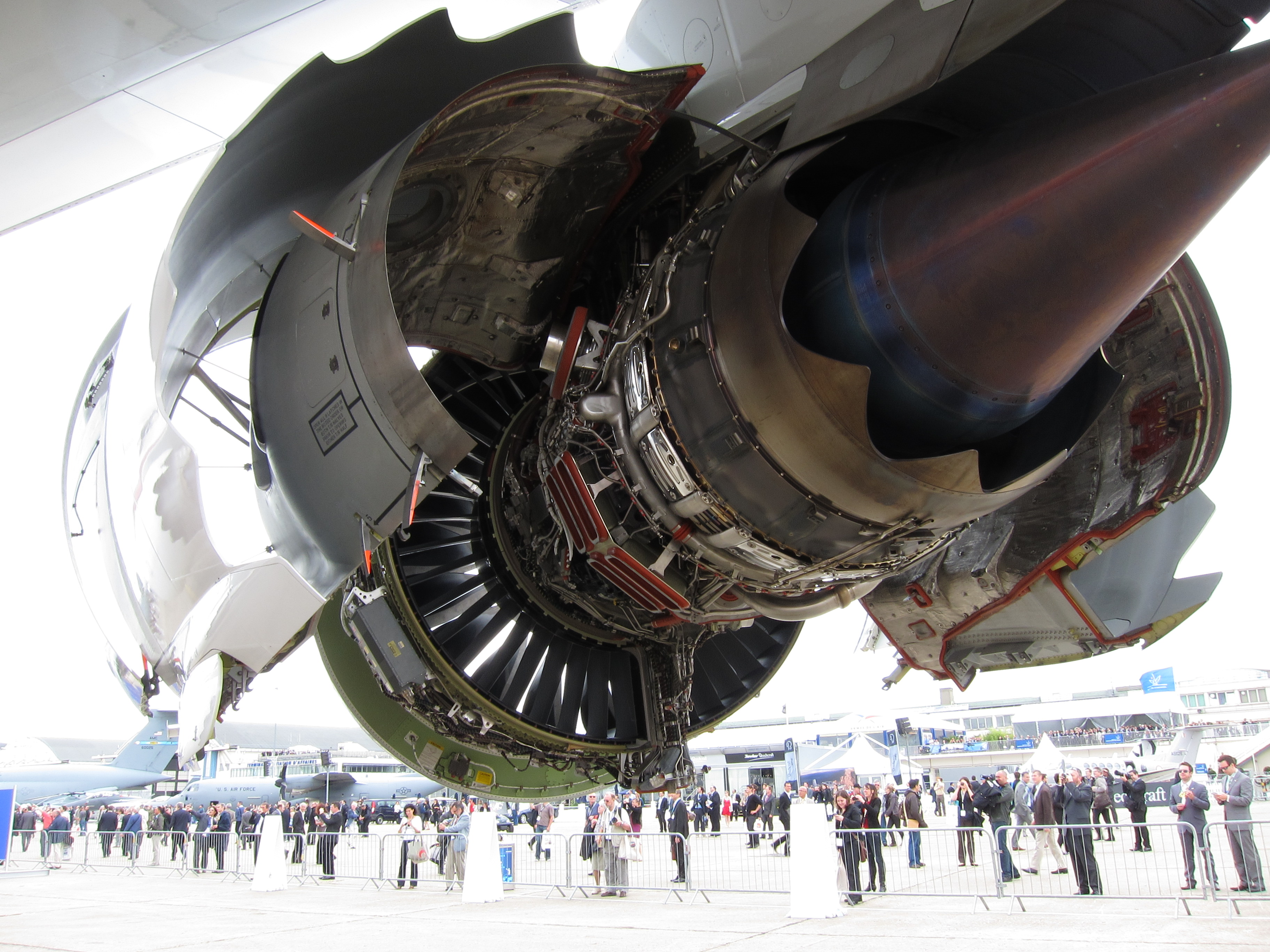 General Electric GEnx turbofan engine with its cowl open. This particular engine is installed at #4 position on the Boeing 747-8I prototype.